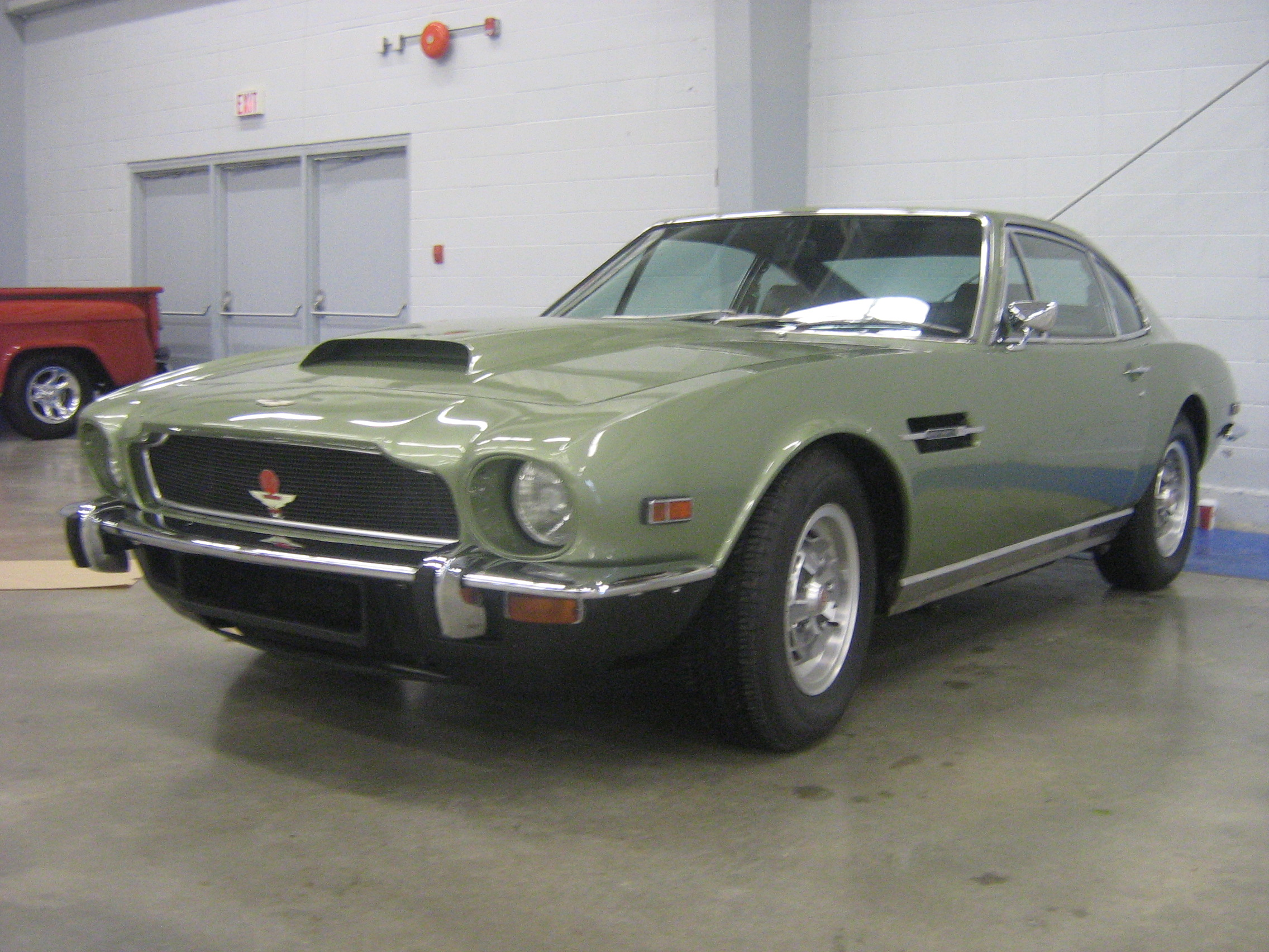 1975 Aston Martin V8